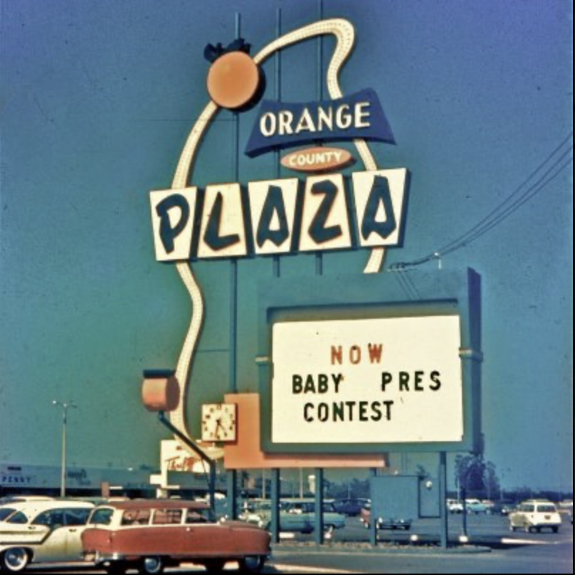 Orange County Plaza late 50s or 60s